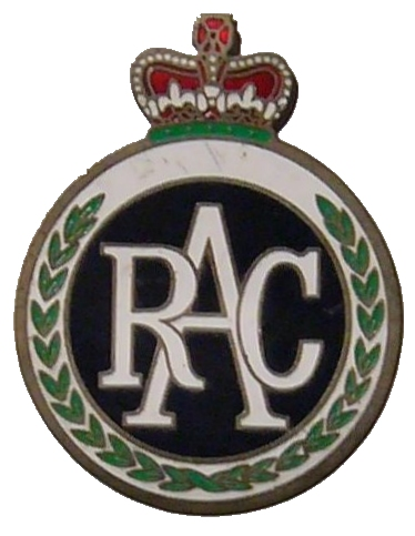 Emaille plate of "The Royal Automobile Club" in the United Kingdom (used to be attached at the front of vehicles which owners were members).